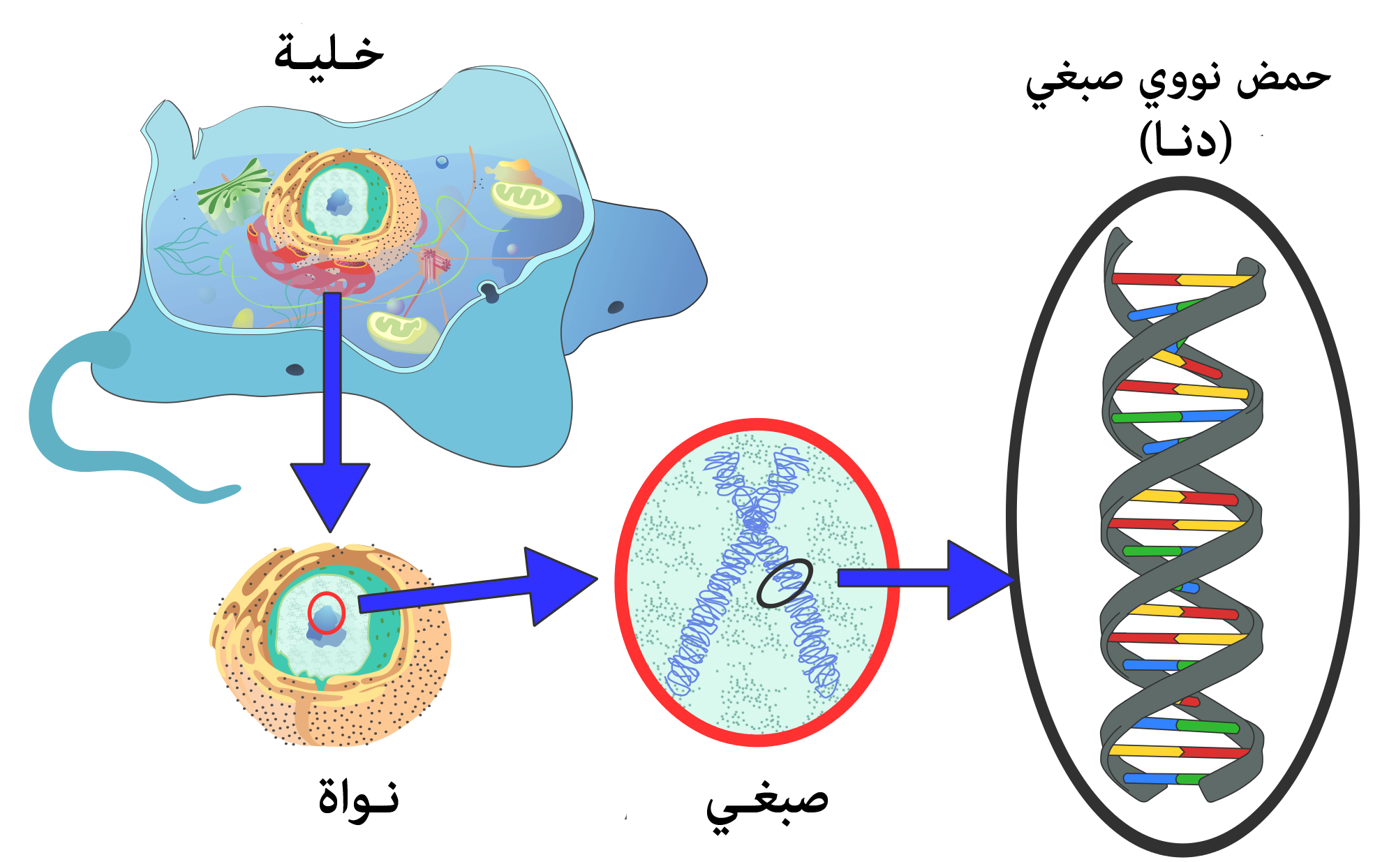 Diagram of DNA in a eukaryotic cell}